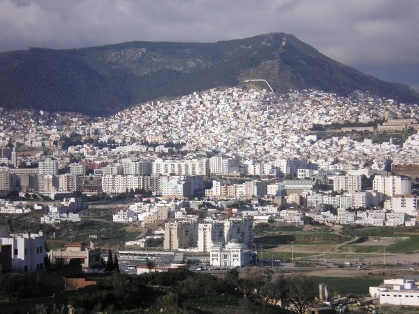 Tétouan seen from Bouanan